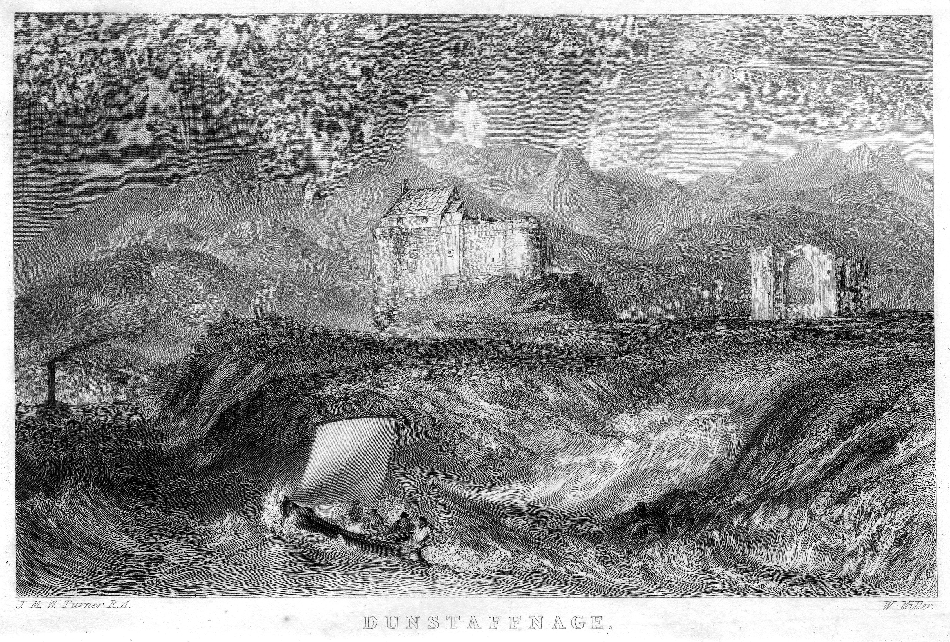 Dunstaffnage Castle (Rawlinson 547) engraving by William Miller after Turner, published in The Miscellaneous Prose Works of Sir Walter Scott, Bart. Embellished with Portraits, Frontispieces, Vignette Titles and Maps. The Designs of the Landscapes from Real Scenes by J.M.W. Turner, R.A.. Edinburgh: Robert Cadell, Edinburgh; Whitaker, Arnot, and Company, London; John Cumming, Dublin 1834 - 1836